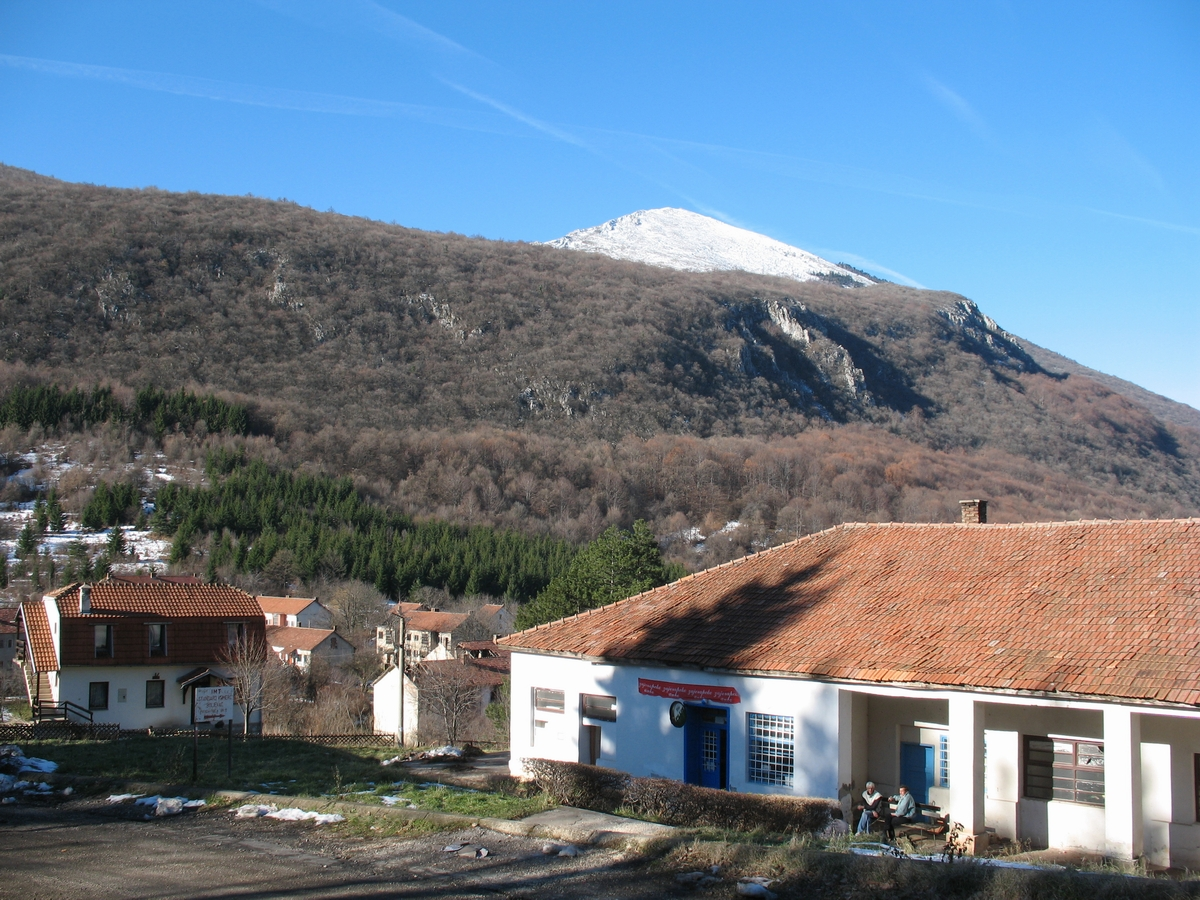 View on Rtanj mountain from Rtanj village in Boljevac Municipality, near Zaječar, Serbia.